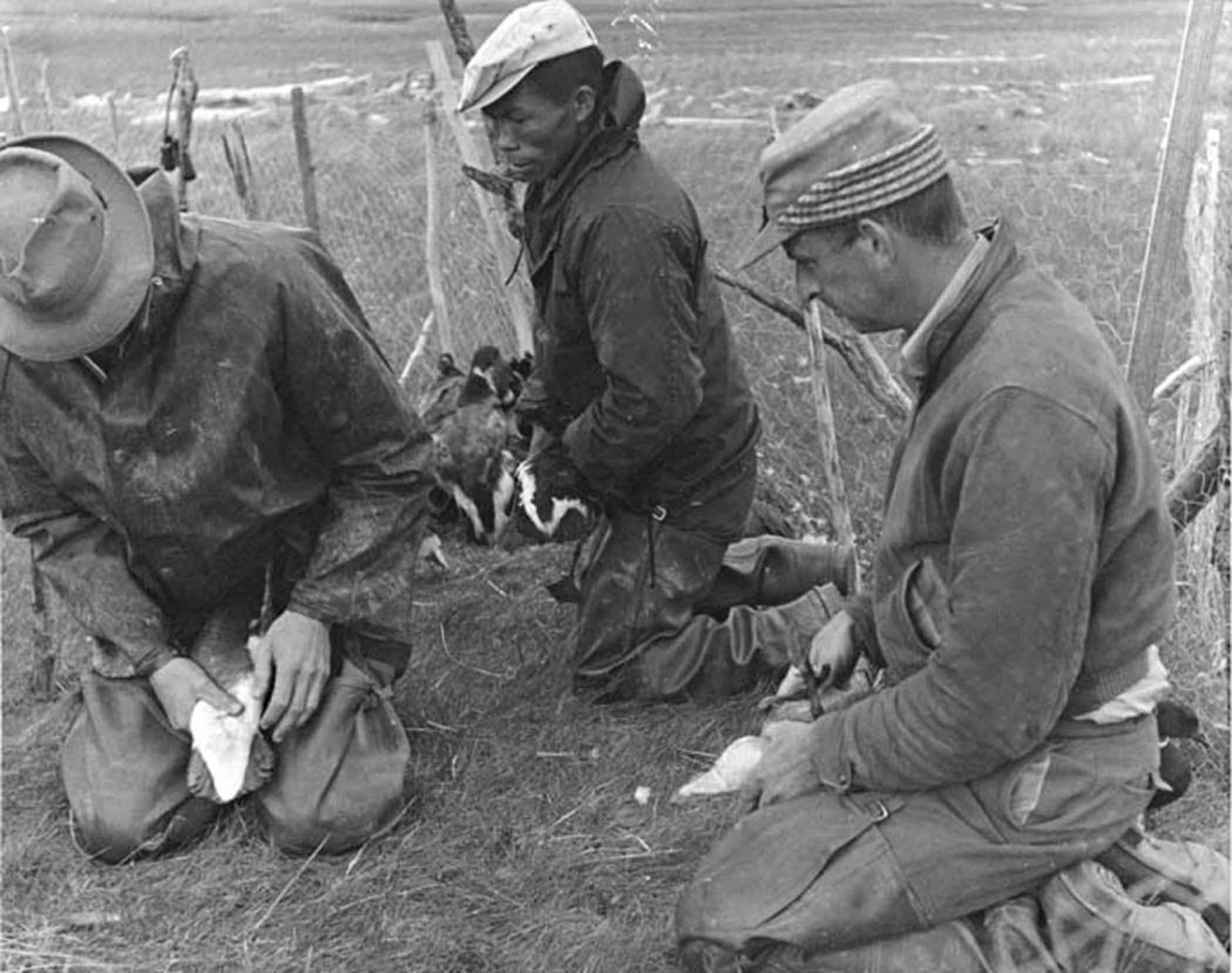 Image title: People working old photo Image from Public domain images website